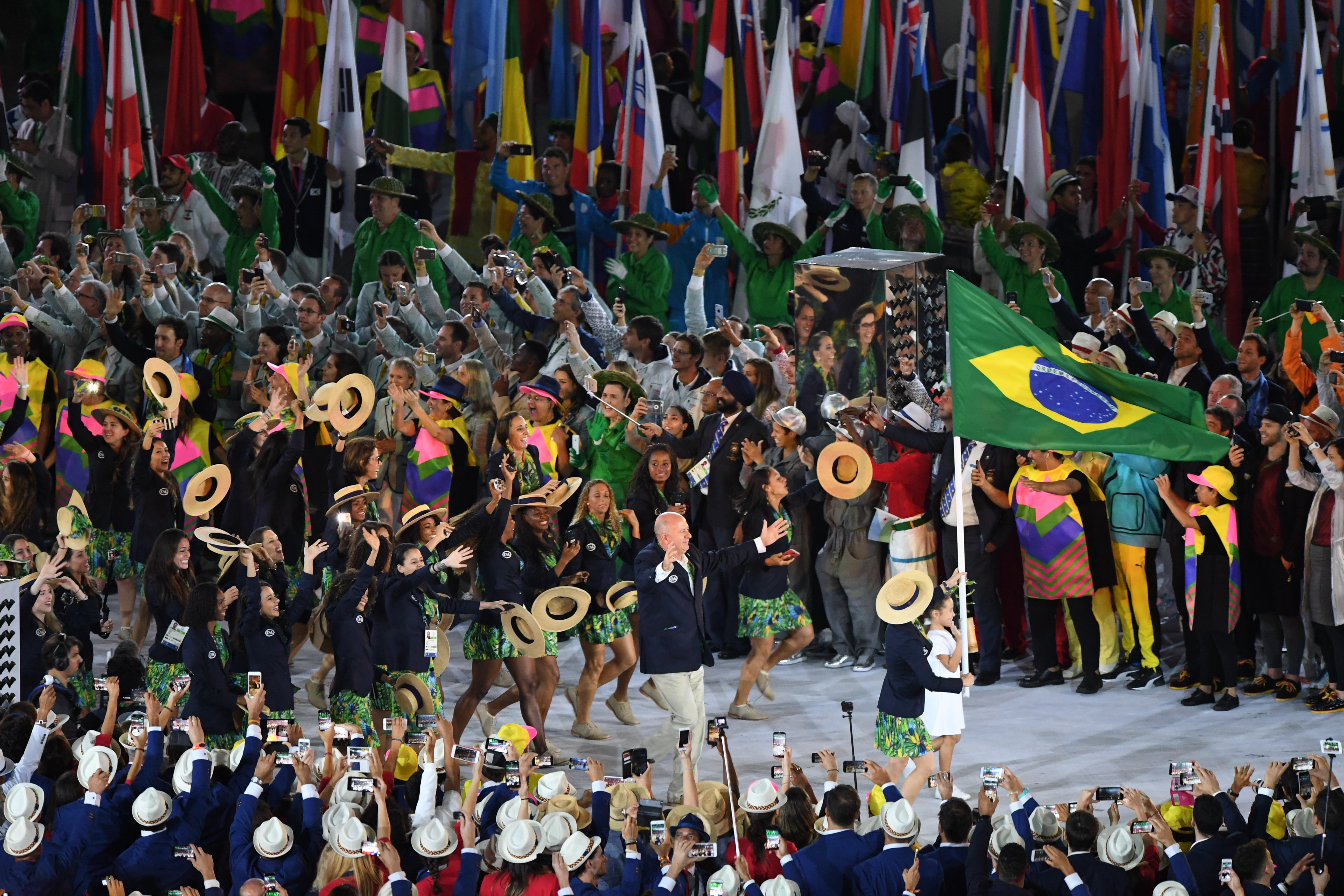 A scene from the Rio 2016 Olympic Games Opening Ceremony on Aug. 5 at Maracana Stadium in Rio de Janeiro, Brazil. U.S. Army photo by Tim Hipps, IMCOM Public Affairs